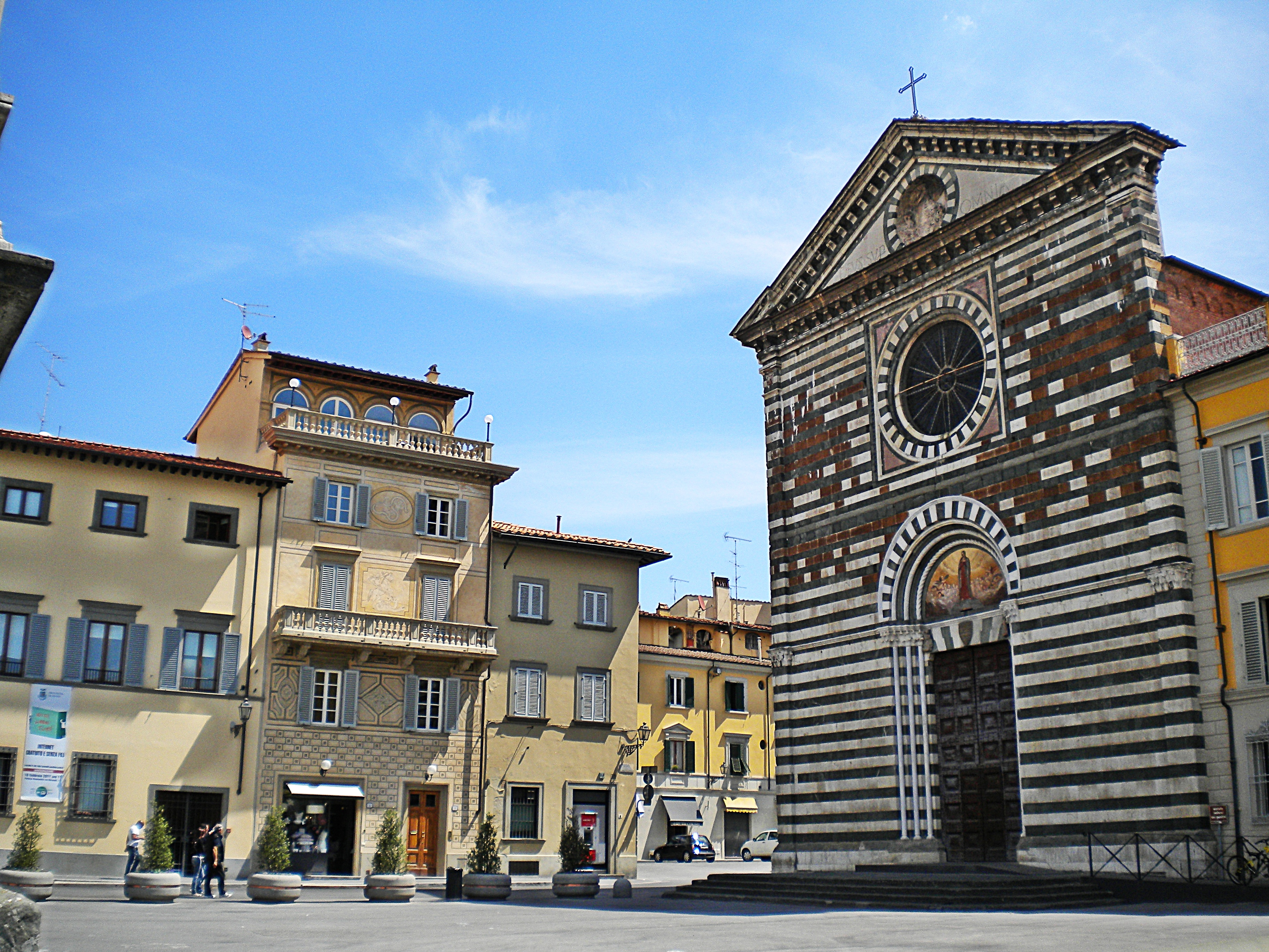 square